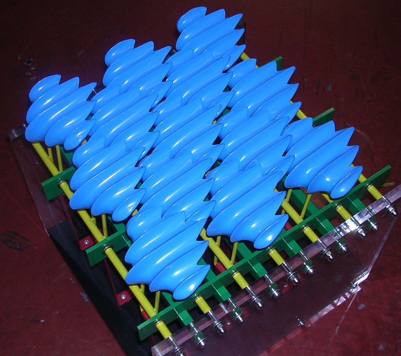 model of a shark skin. The scales (blue) carry sharp ribs, which cause the resistance-reducing effect.